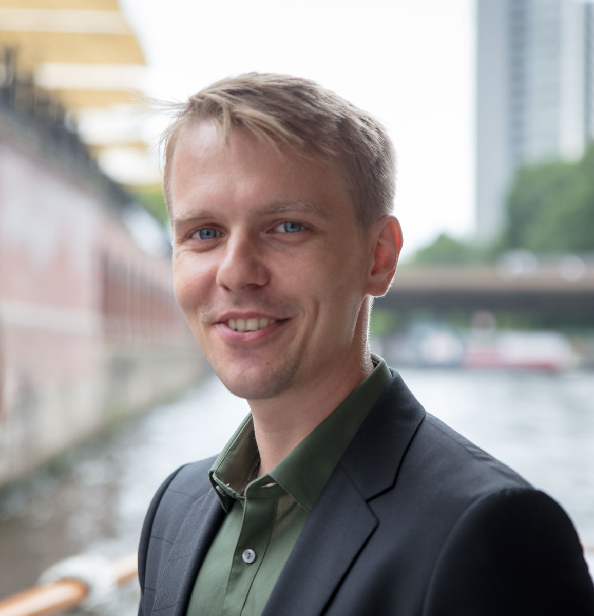 Jens Christoph Parker (2017)